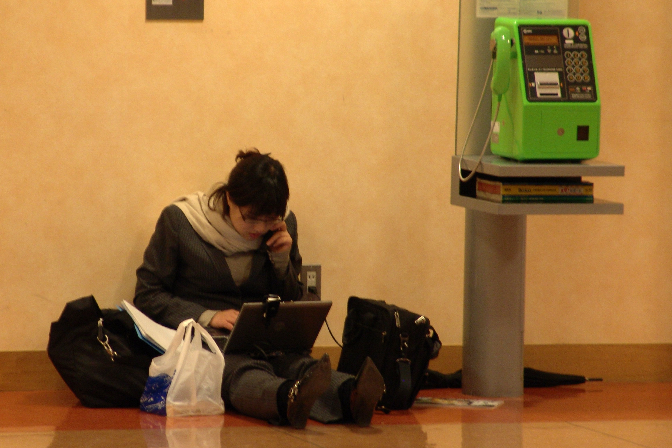 A girl using a laptop computer, Japan